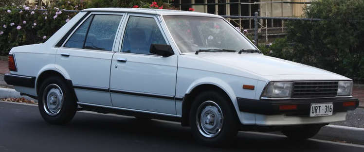 No guessing where the owners of this showroom like condition Meteor was?!! Haha!